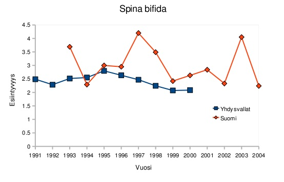 Chart is compiled from data in [1] and [2] (English summary is in the last part). The captions are Yhdysvallat = US, Suomi = Finland, x-label = year, ylabel = prevalence per 10 000 live births.